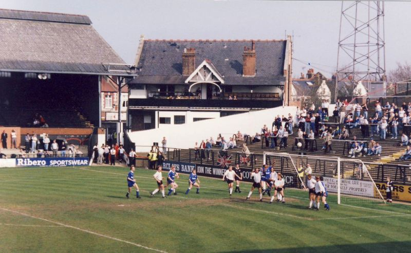 Fulham in the Eighties